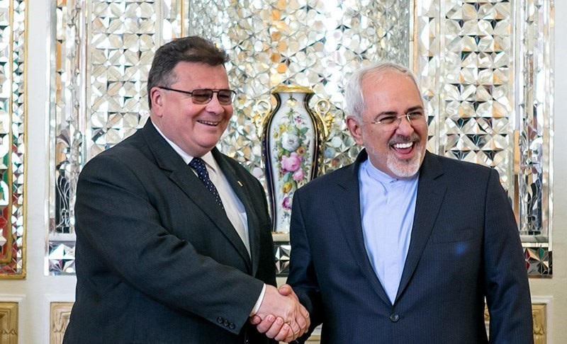 Iranian Foreign Minister Mohammad Javad Zarif meets with Lithuanian Foreign Minister Linas Antanas Linkevičius